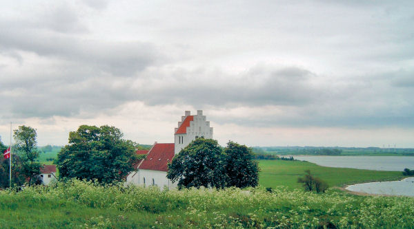 The danish church ‘Tårnborg Kirke’ situated app. 6 km northeast of the danish town ’Korsør’. Photo taken by Jørgen Larsen, 2004-05-19.